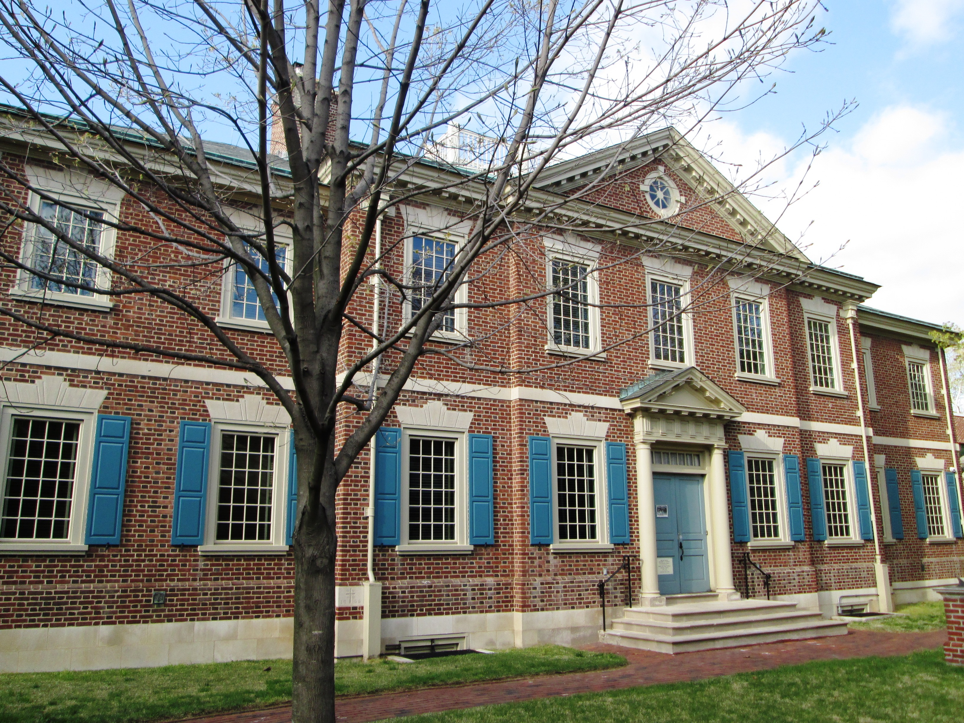 The Presbyterian Historical Society was founded in 1852 and is the oldest denominational archives in the United States. It serves as the national archives for the Presbyterian Church (U.S.A.) Its headquarters building at 425 Lombard Street between S. 4th and S. 5th Street in the Society Hill neighborhood of Philadelphia was completed in 1967.